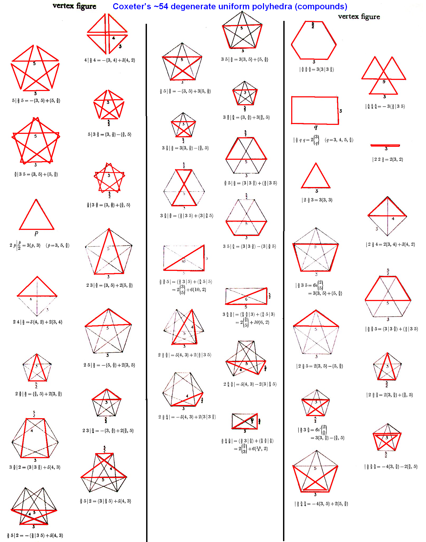 Uniform polyhedron (degenerate forms) vertex figures